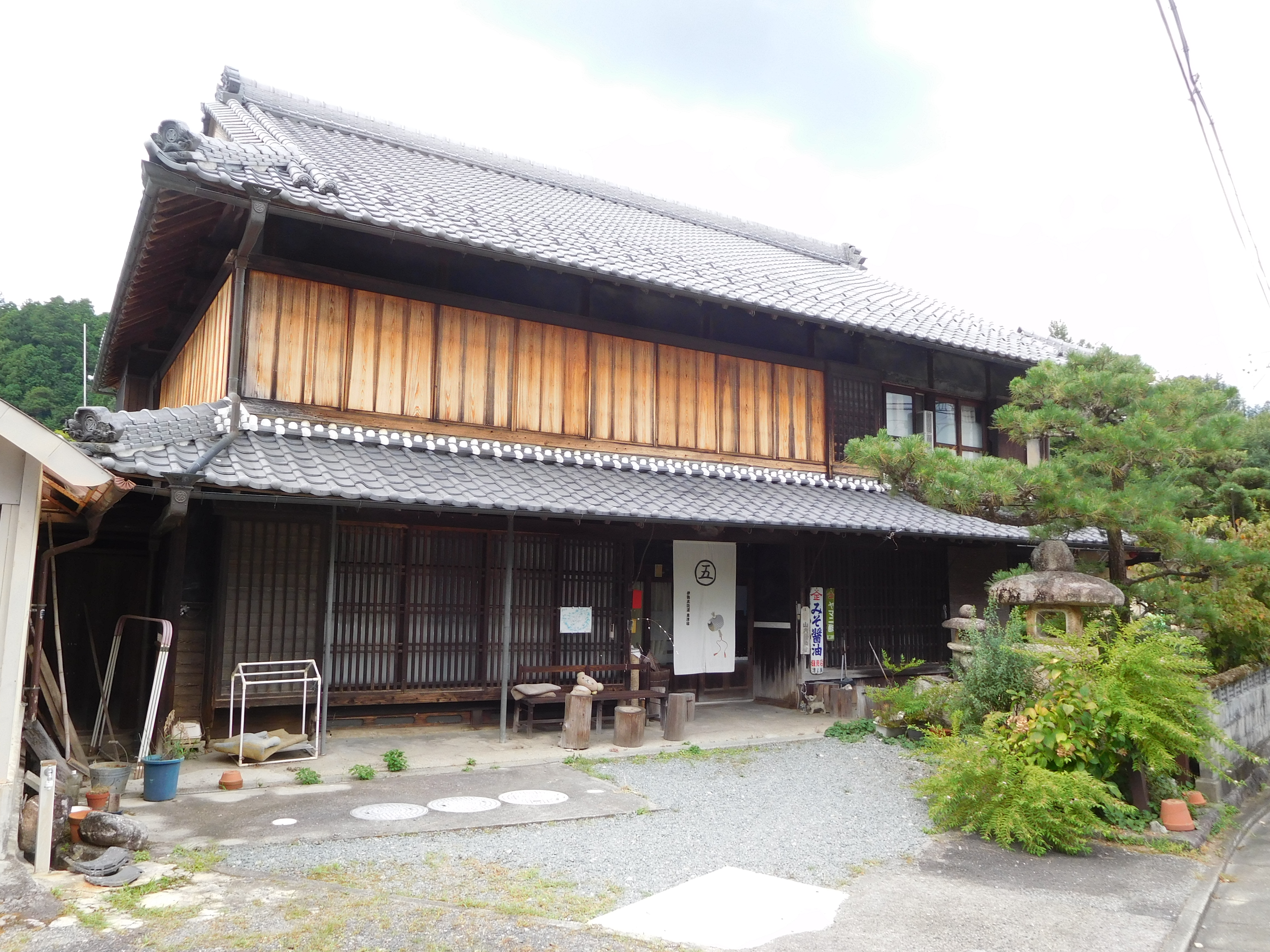 This is Yamauchi store, a store of Okitsu-juku, Tsu, Mie, Japan.